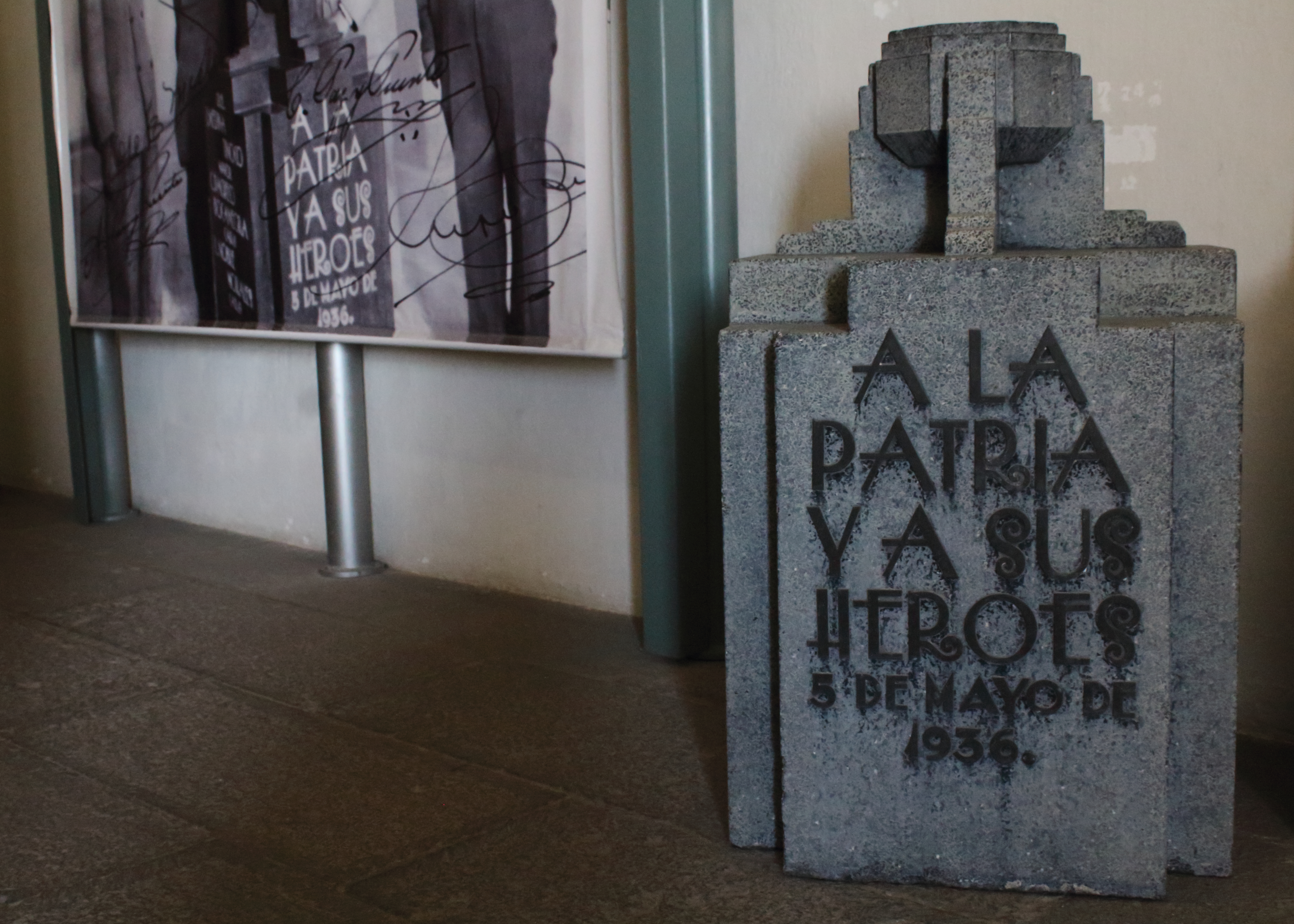 Monument to General J. Medina Tinoco, Mayor C. Pacheco Bocanegra, Cap 1 ° L. Noble Morales and Cap 1 ° J. Valdovinos García.